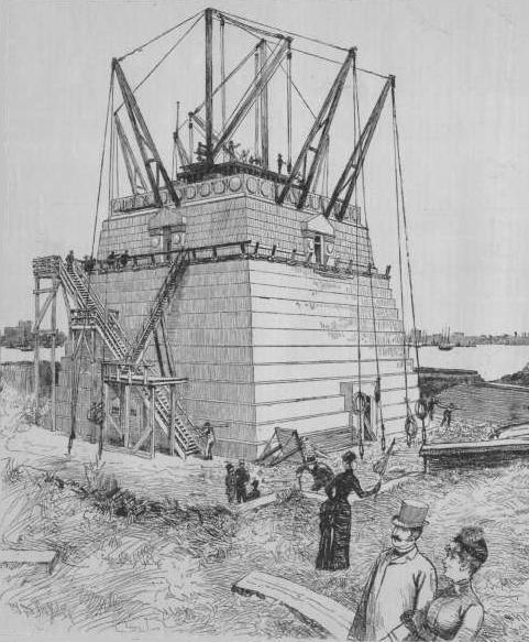 Detail from Pedestal for Bartholdi's Statue of Liberty on Bedloe's Island, New York Harbor, drawn by W. P. Snyder and published in Harper's Weekly, June 6, 1885.